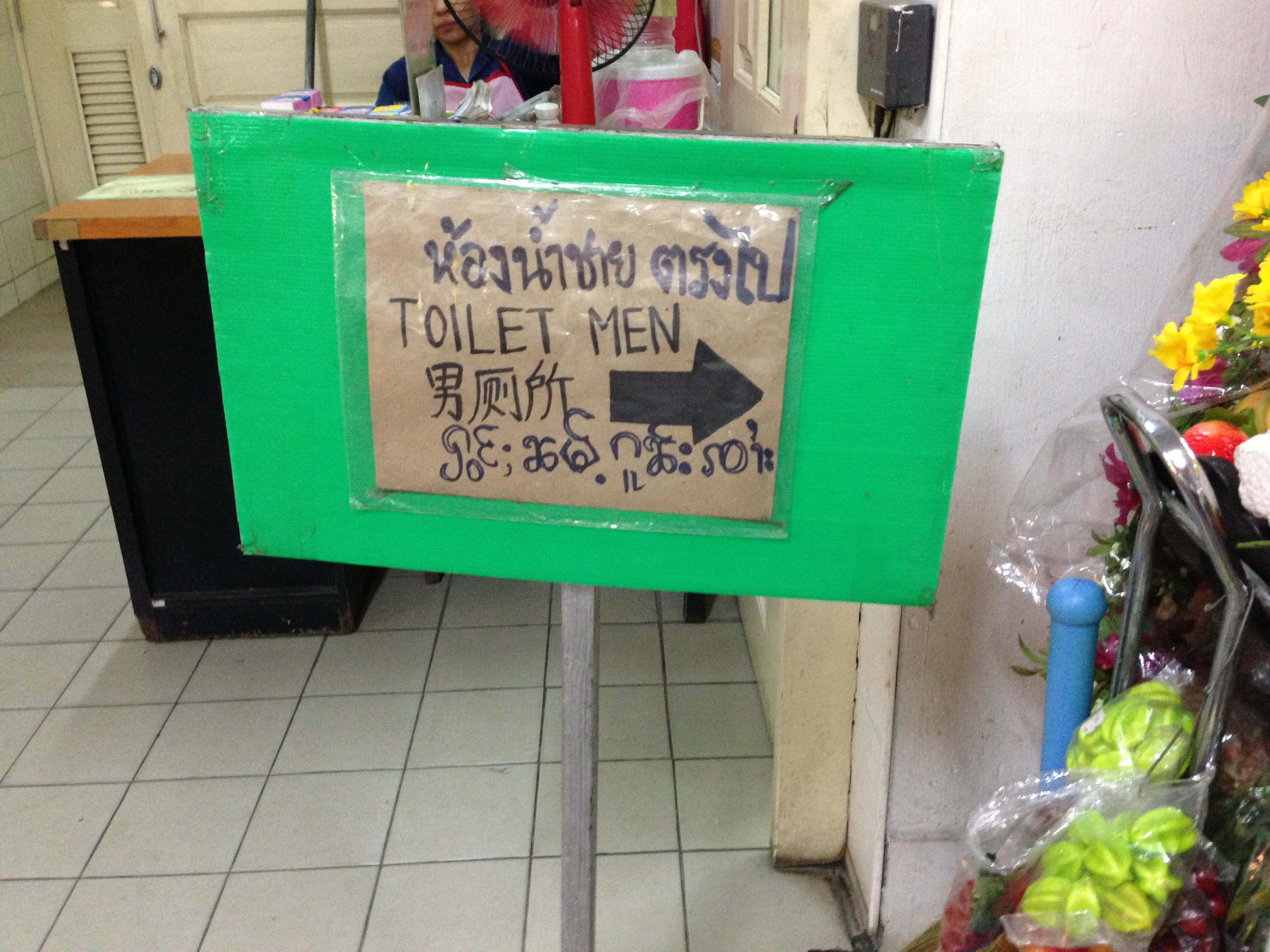 A sign written in Shan directing to a restroom at a market in Chiangmai, Thailand